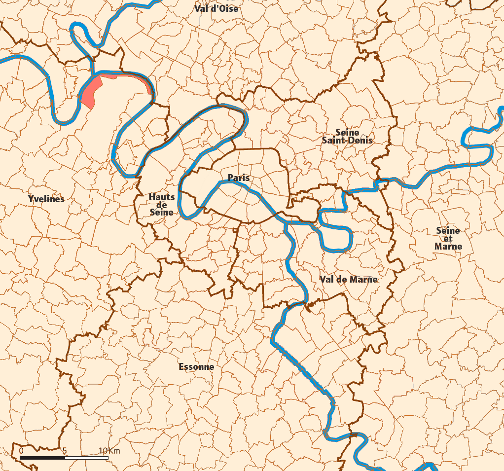 Created map myself.